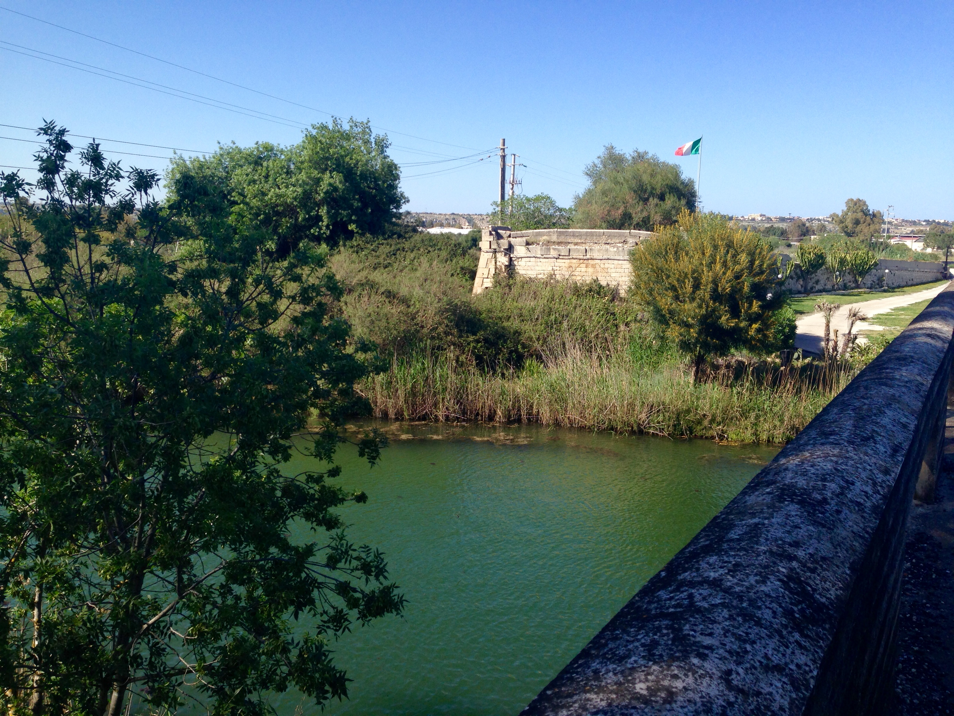 old Anapo bridge